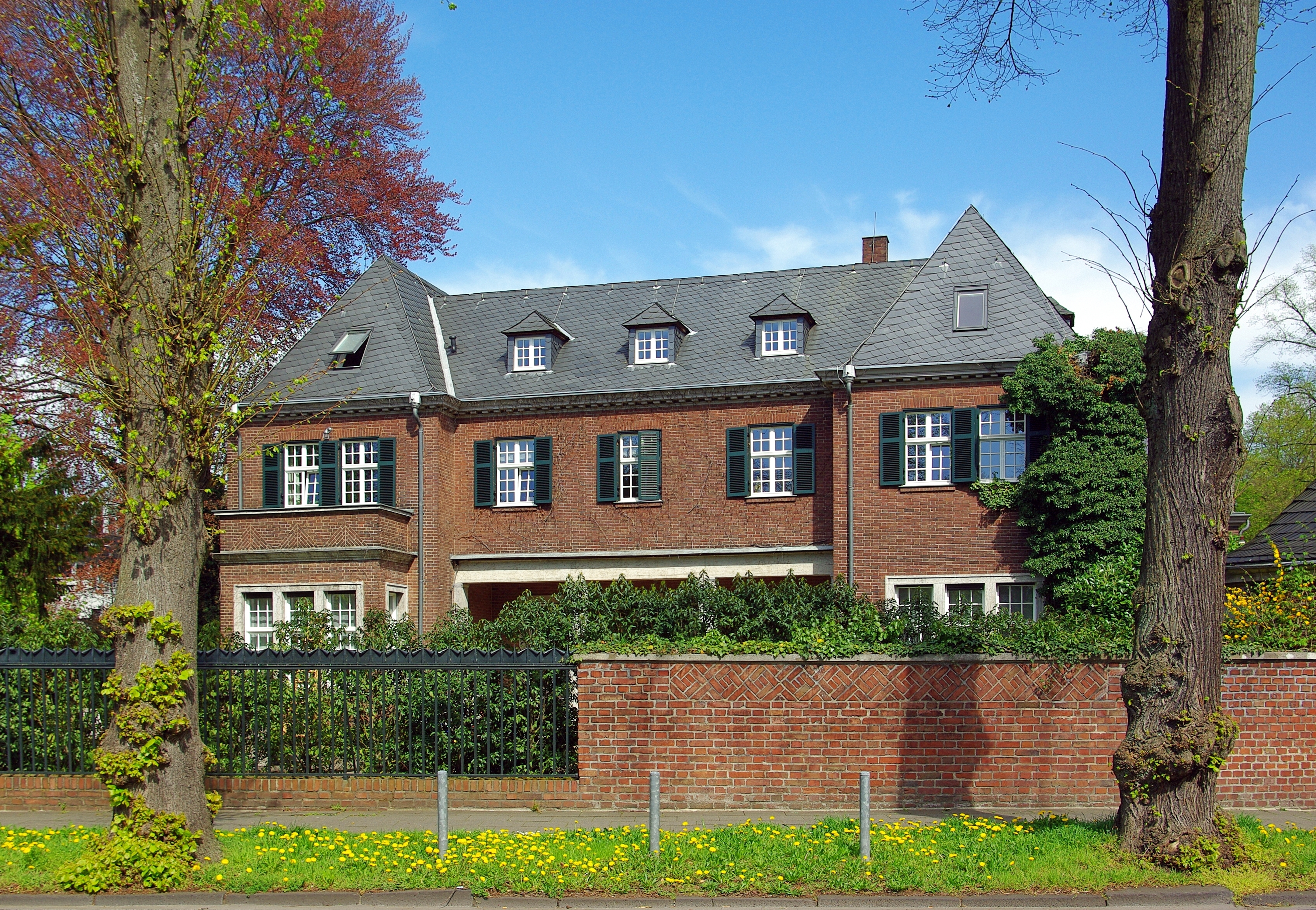 House, Cologne-Marienburg (seen from Schillingsrotter Platz)